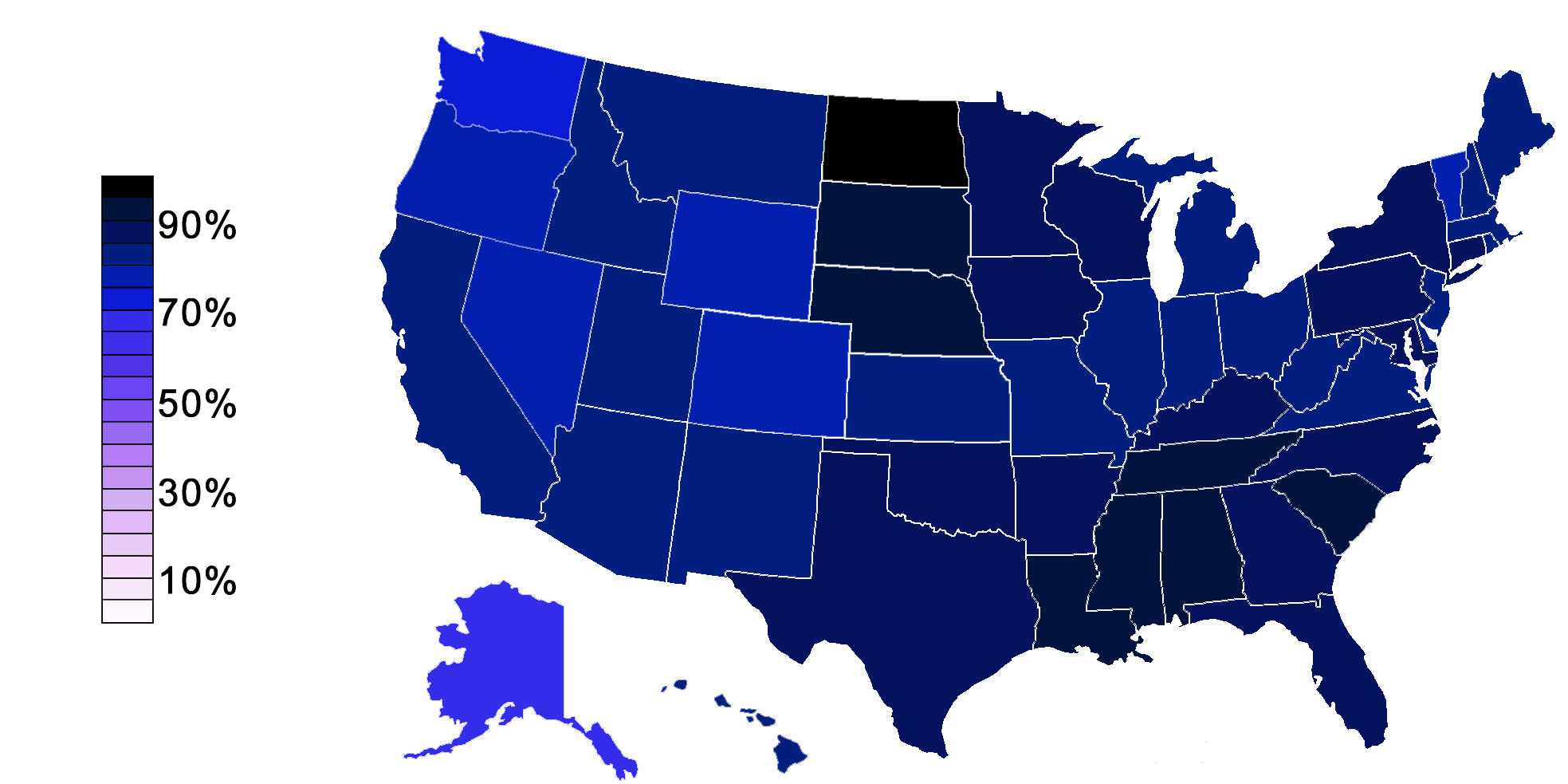 The percentage of people by state in the United States who identify with a religion as opposed to having "no religion" (2001).